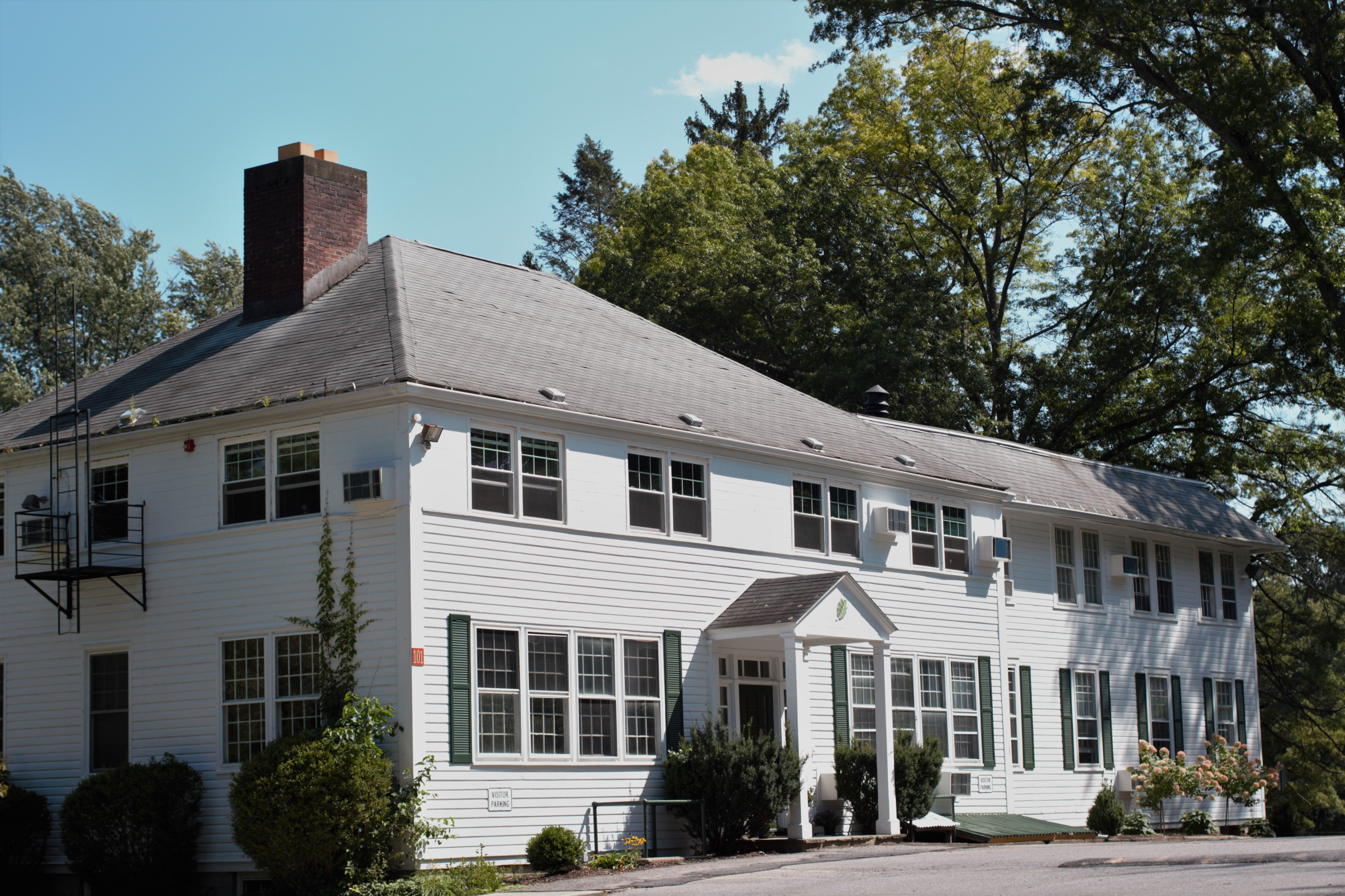 Main Building at Oakwood Friends School